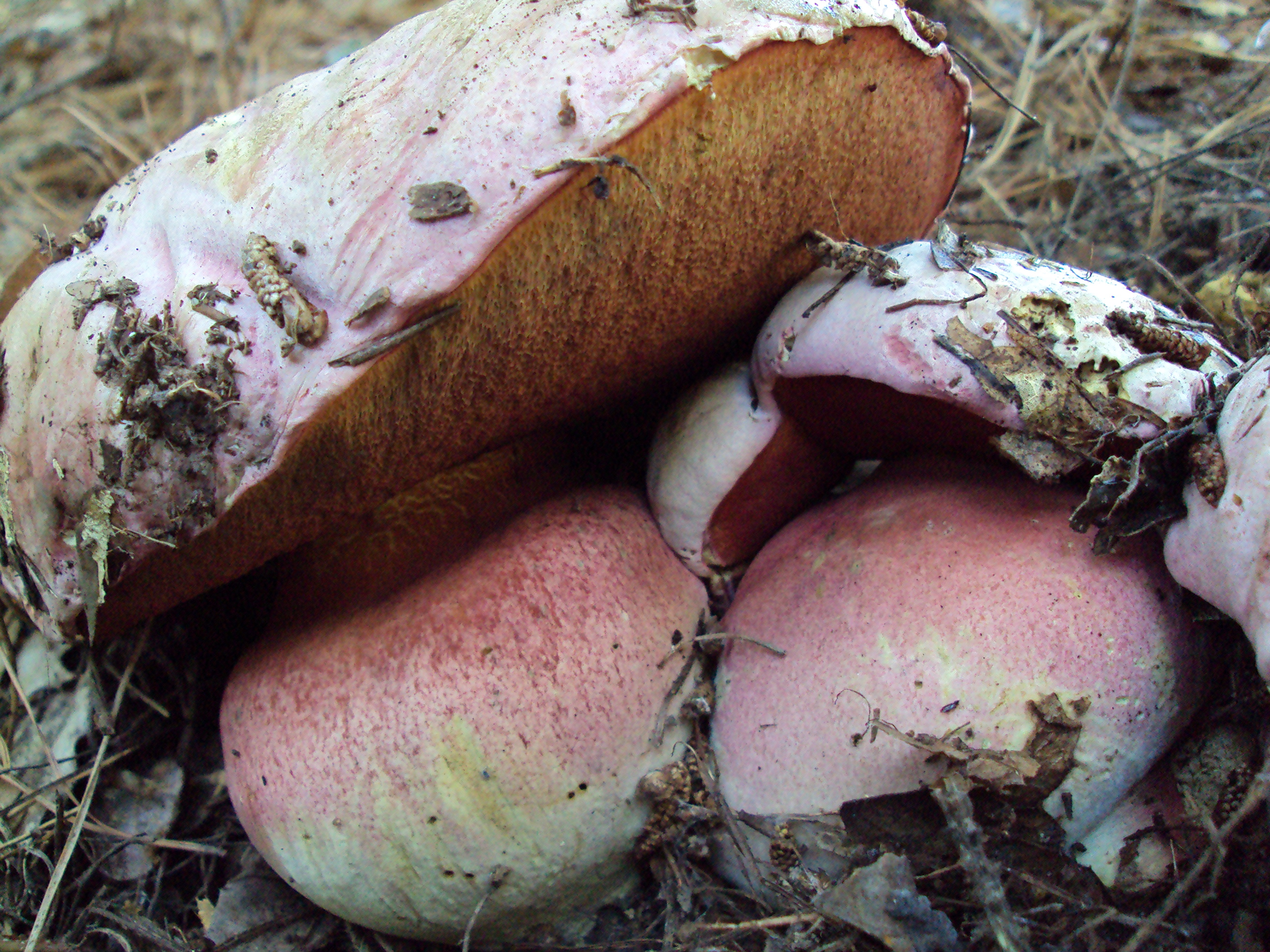 Boletus eastwoodiae (Murrill) Sacc. & Trotter Location: Orinda Oaks Park, Orinda, California, USA Observation Notes: Growing under live oaks (Quercus agrifolia) and Pinus radiata.[admin – Sat Aug 14 02:04:15 0000 2010]: Changed location name from ‘Orinda Oaks Park, Orinda, Contra Costa Co., California, USA’ to ‘Orinda Oaks Park, Orinda, California, USA’ For more information about this, see the observation page at Mushroom Observer.